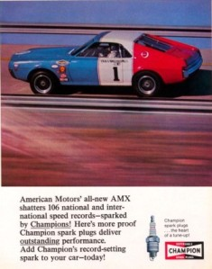 A 1968 magazine advertisement for Champion Spark Plugs promoting the new Breedlove speed records set with the American Motors' AMX. The ad is promoting the event, the champion vehicle, and the spark plugs. It serves as an example of the extra publicity the new for 1968 AMX automobile. The image was freely provided with the intention that it be distributed to the public.